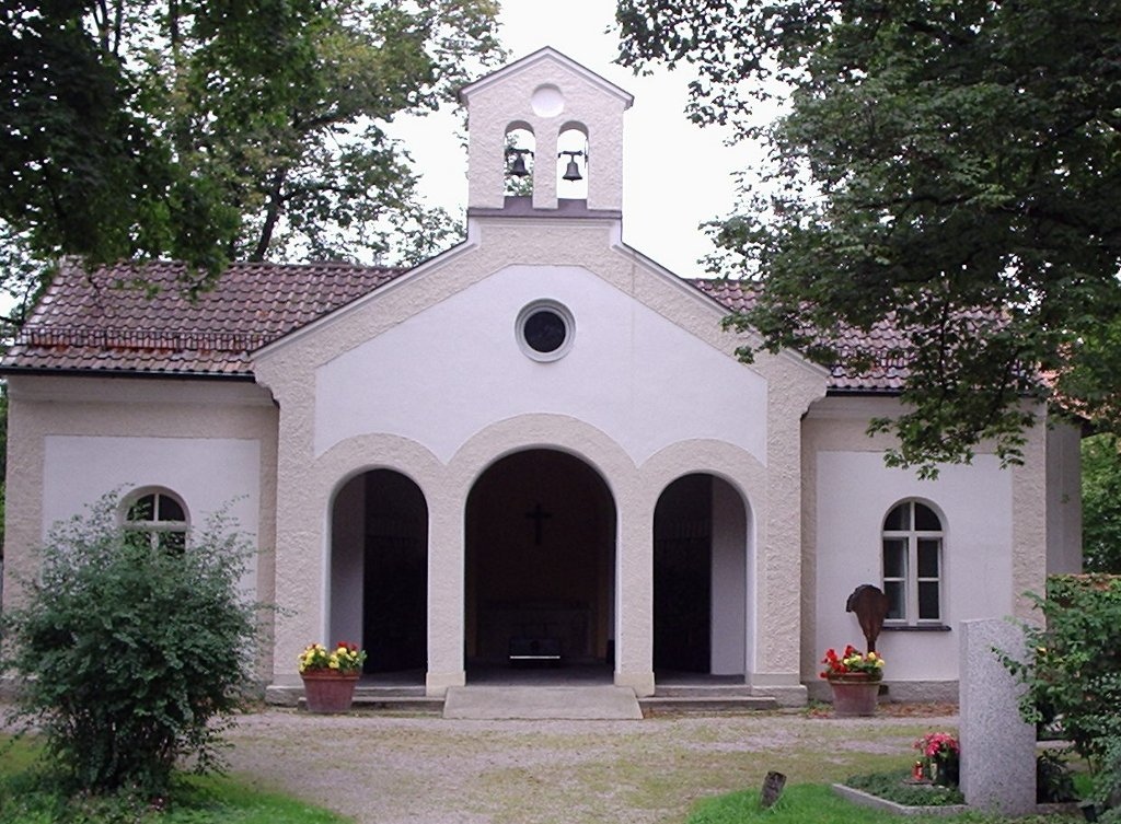 Cemetery chapel at Friedhof Solln in Munich, Germany.